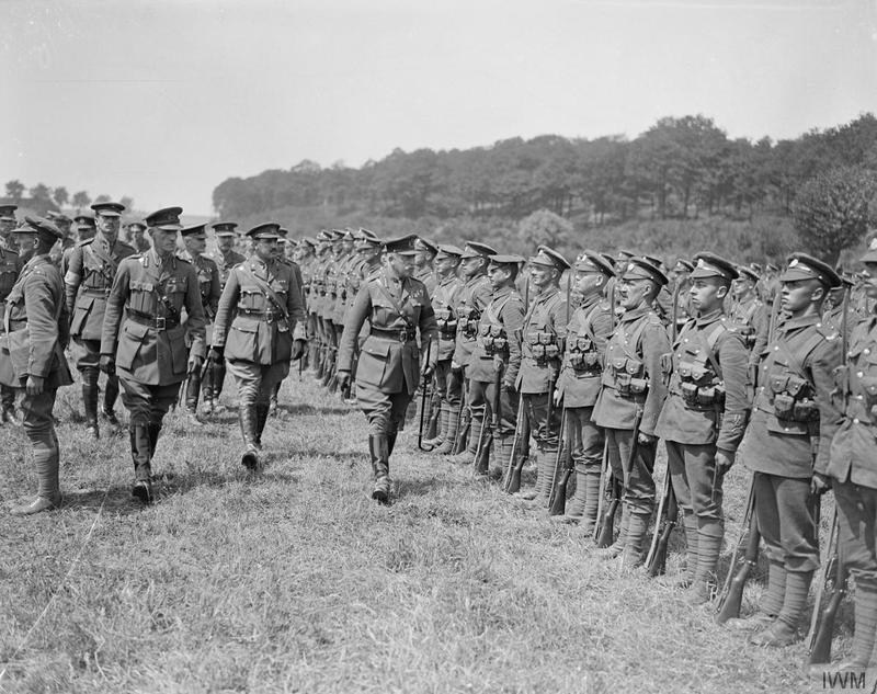 The Official Visits To the Western Front, 1914-1918 Prince Arthur, the Duke of Connaught, inspecting troops of the 1st Battalion, Northamptonshire Regiment, 2nd Brigade. Near Bruay, 1 July 1918.